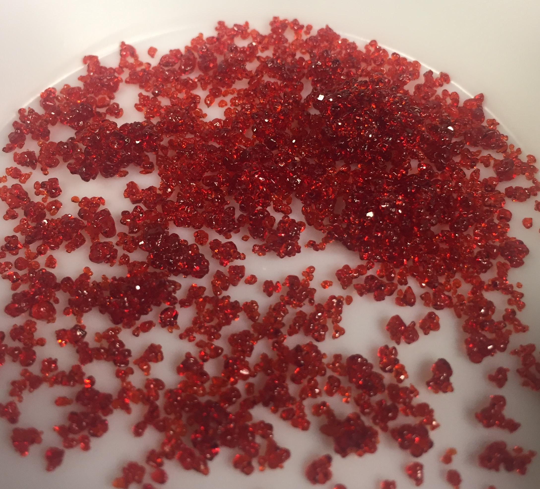 sample of TEMPO